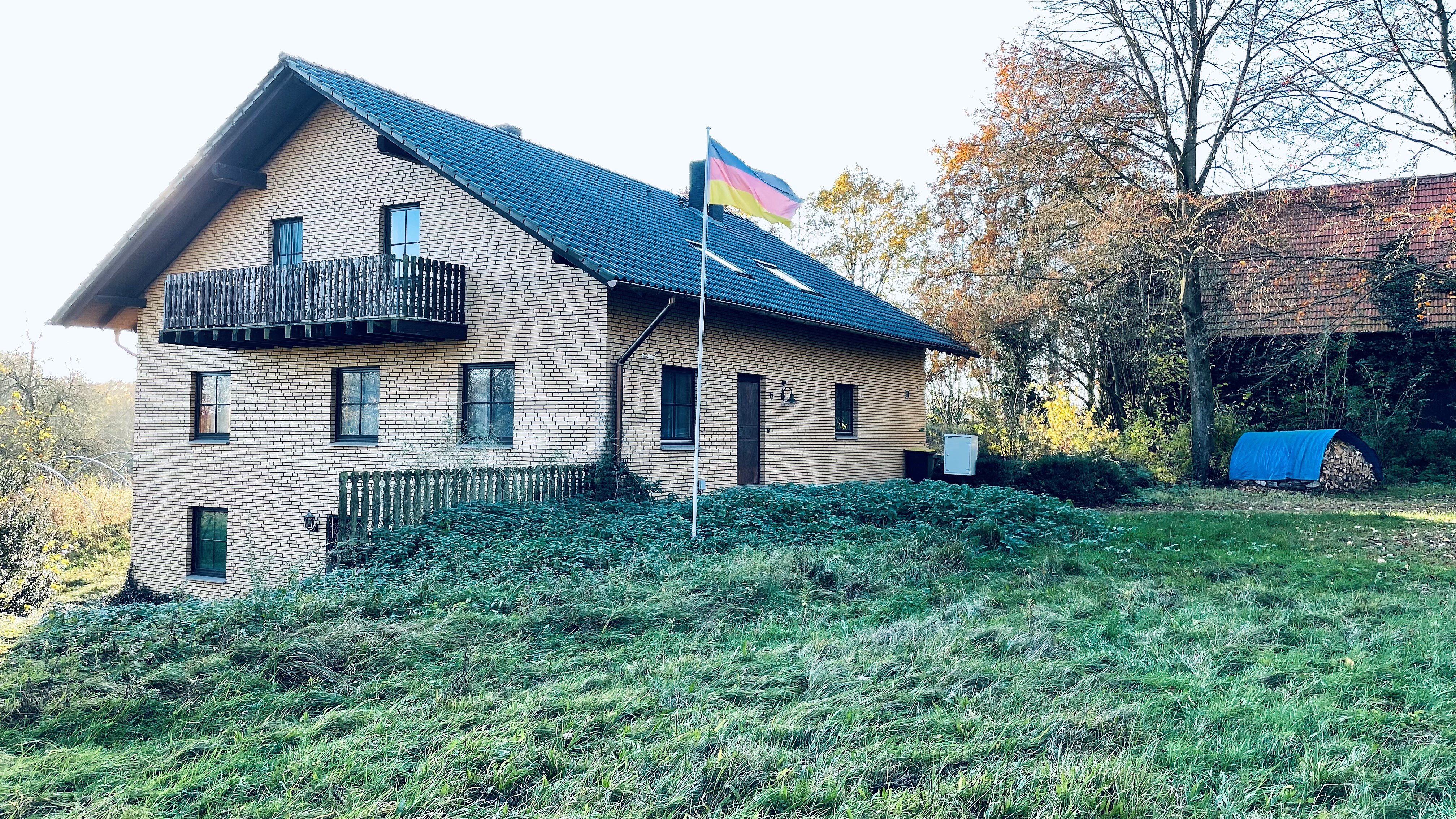 House on the lands, where a german Farmstead was once active. It was build about at 1984, and till then got "modernized" slightly from inside.